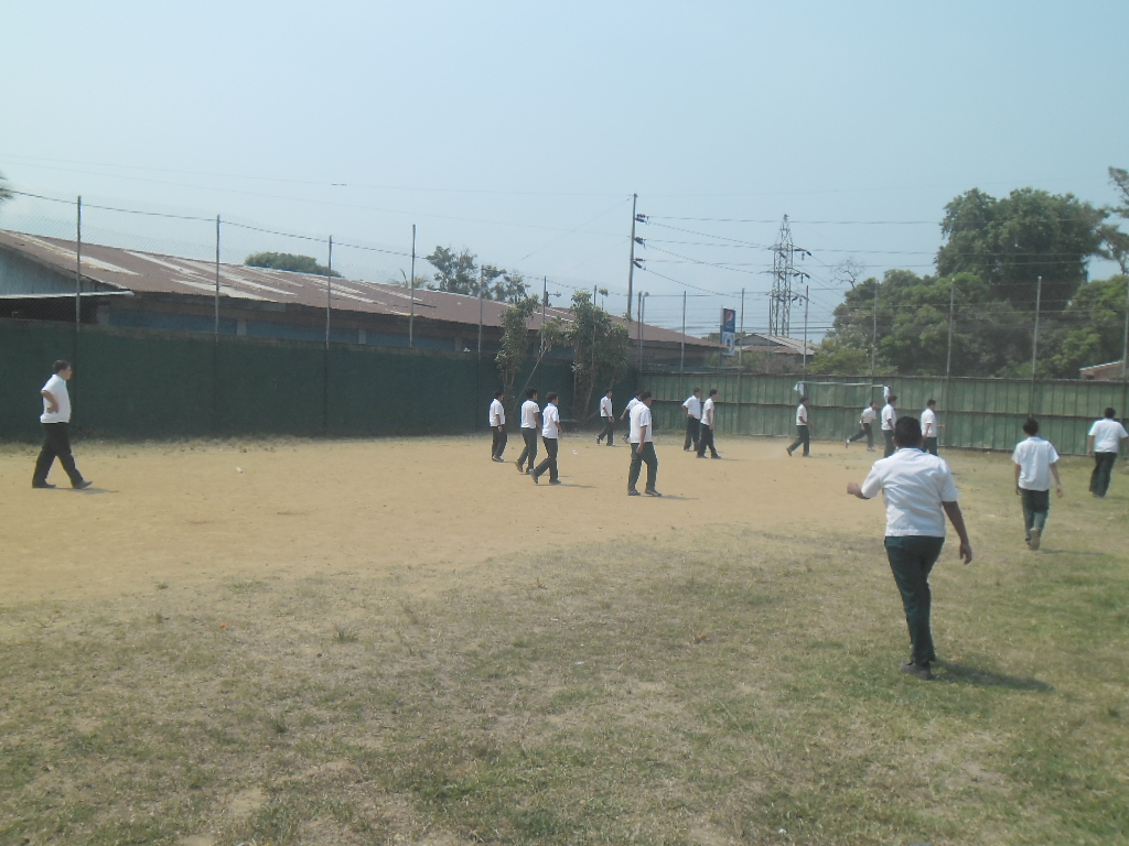 El deporte mas jugado en ABS